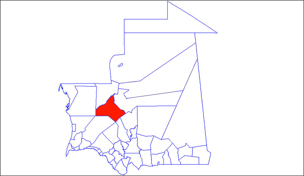 Oujeft Department of Mauritania